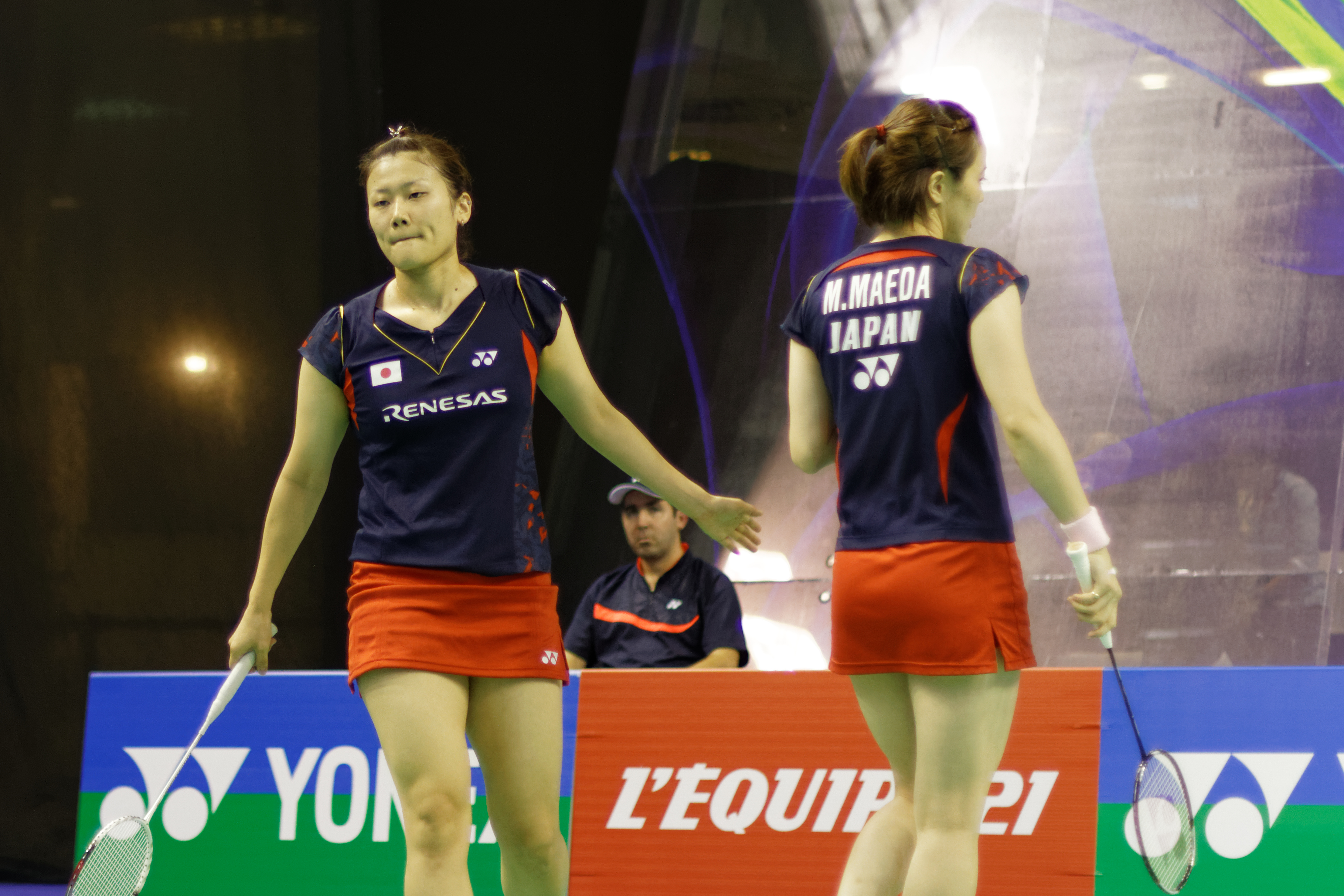 2013 French open. Women's doubles quarterfinal. Reika Kakiiwa and Miyuki Maeda vs Bao Yixin and Tang Jinhua.